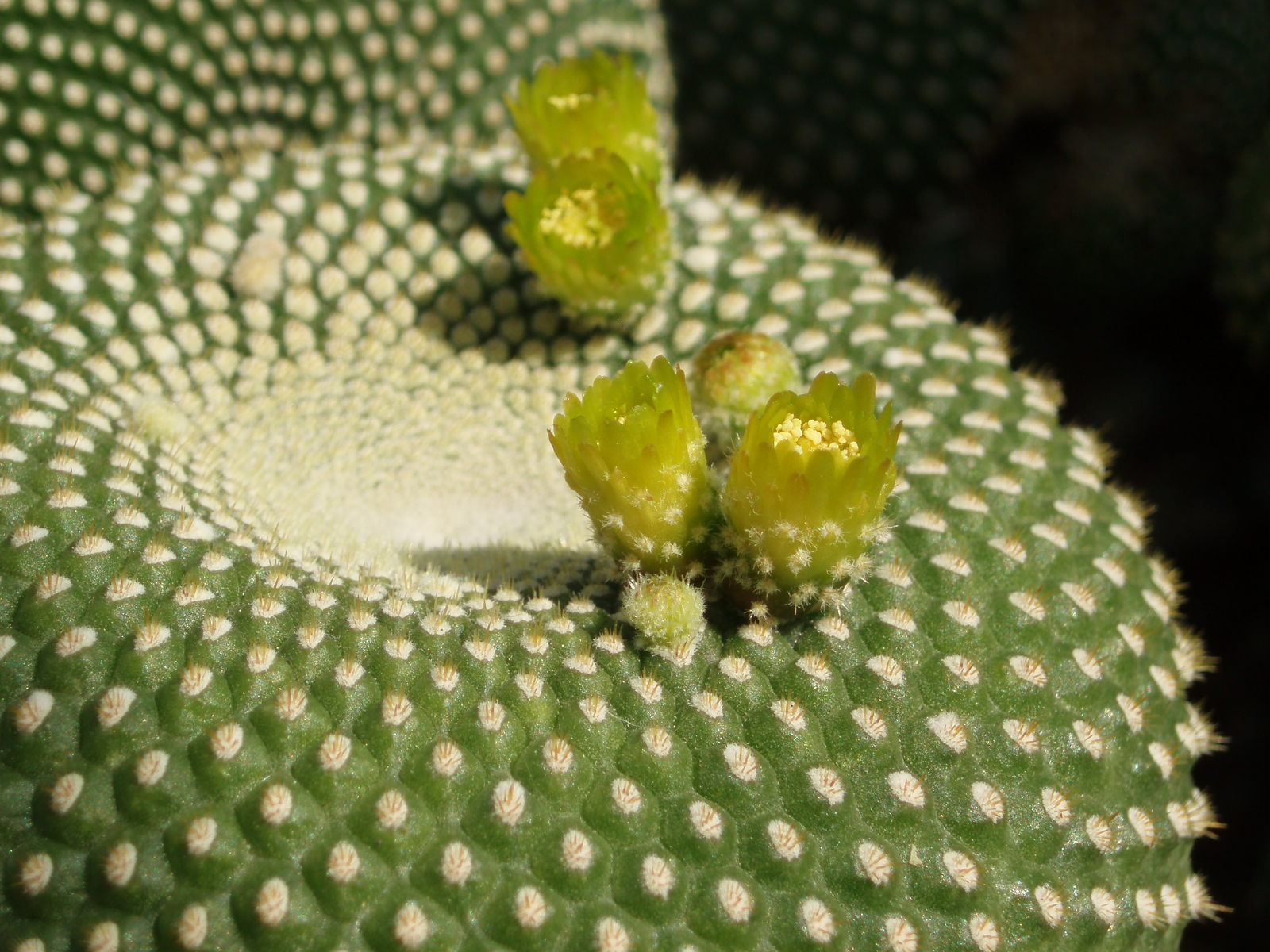 plant from type collection, Rio Grande do Sul Brasil